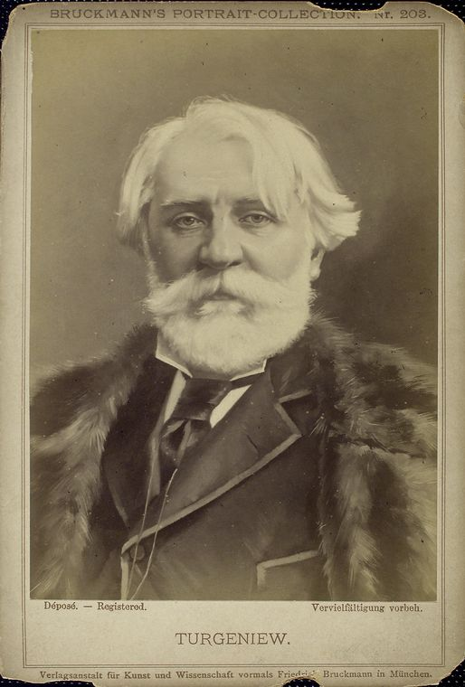 Russian writer Ivan Turgenev late in his life